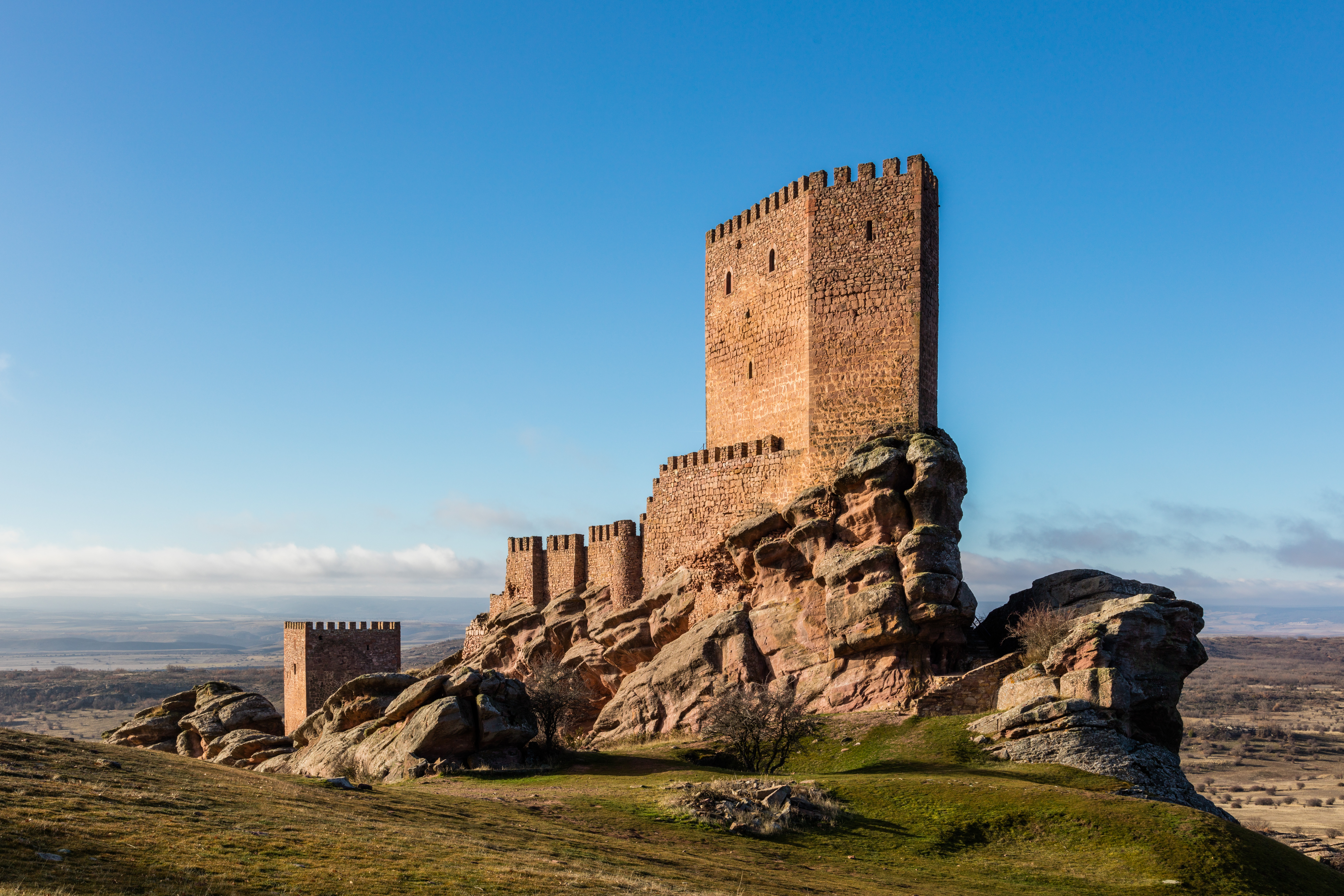 Castle of Zafra, Campillo de Dueñas, Guadalajara, Spain